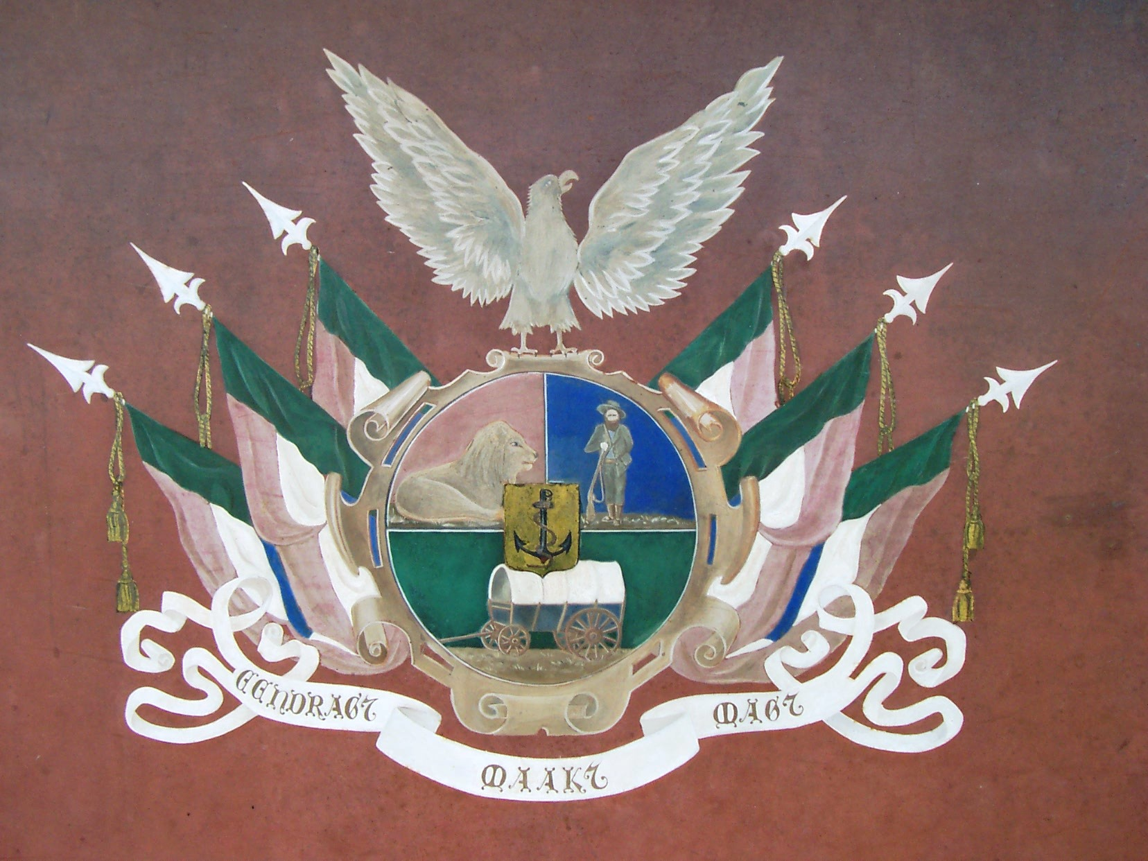 Image history of File:Kruger logo wagon.jpg: (del) (cur) 22:46, 6 March 2006 . . Stephantom . . 1656×1242 (415,997 bytes) (This is the logo that is displayed on the wagon that once belonged to Kruger. The wagon can currently be found in the garden of Kruger House, Pretoria / South Africa. I took this myself in January 2005.)